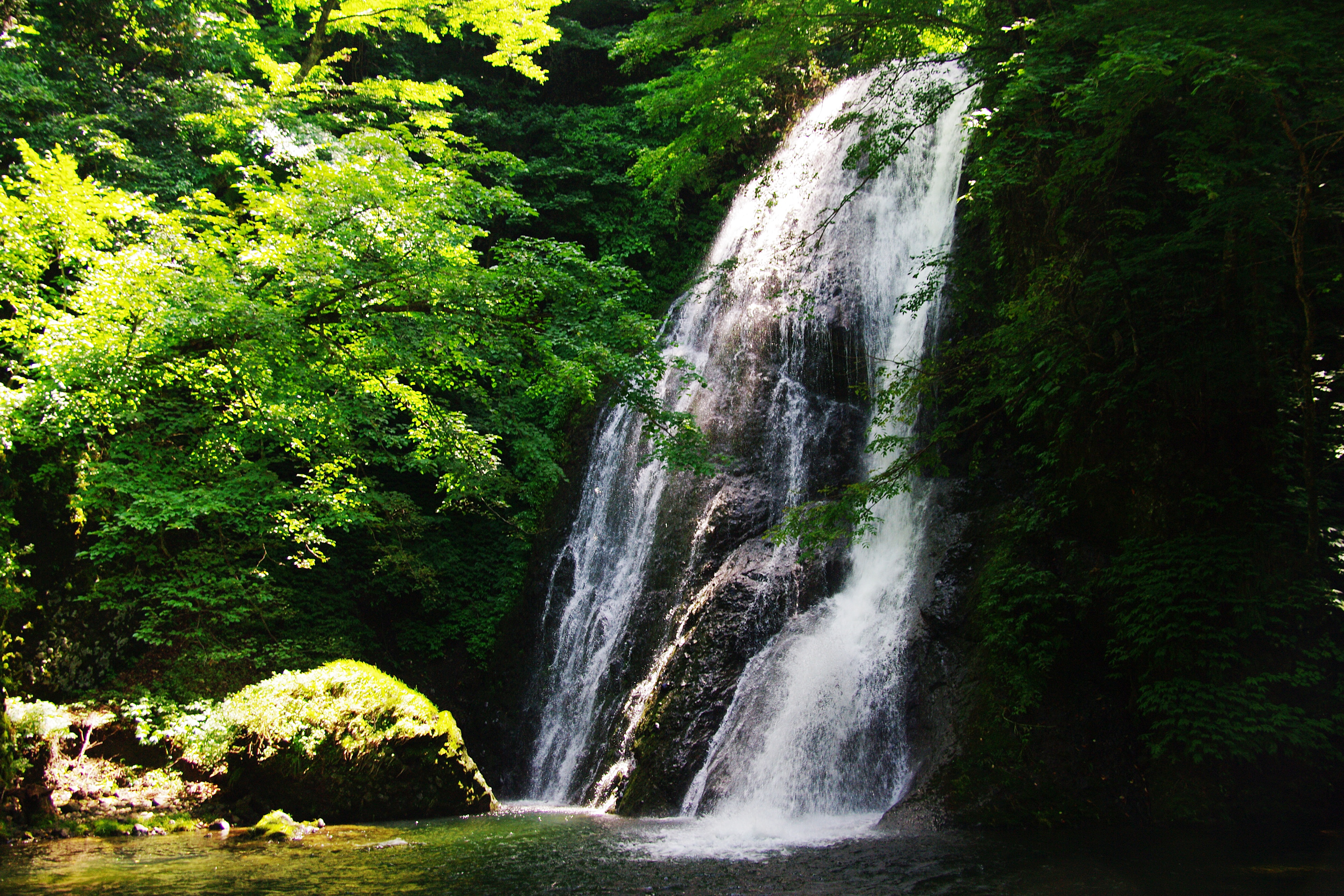 Garo no taki Waterfall in Fujisato, Akita, Japan